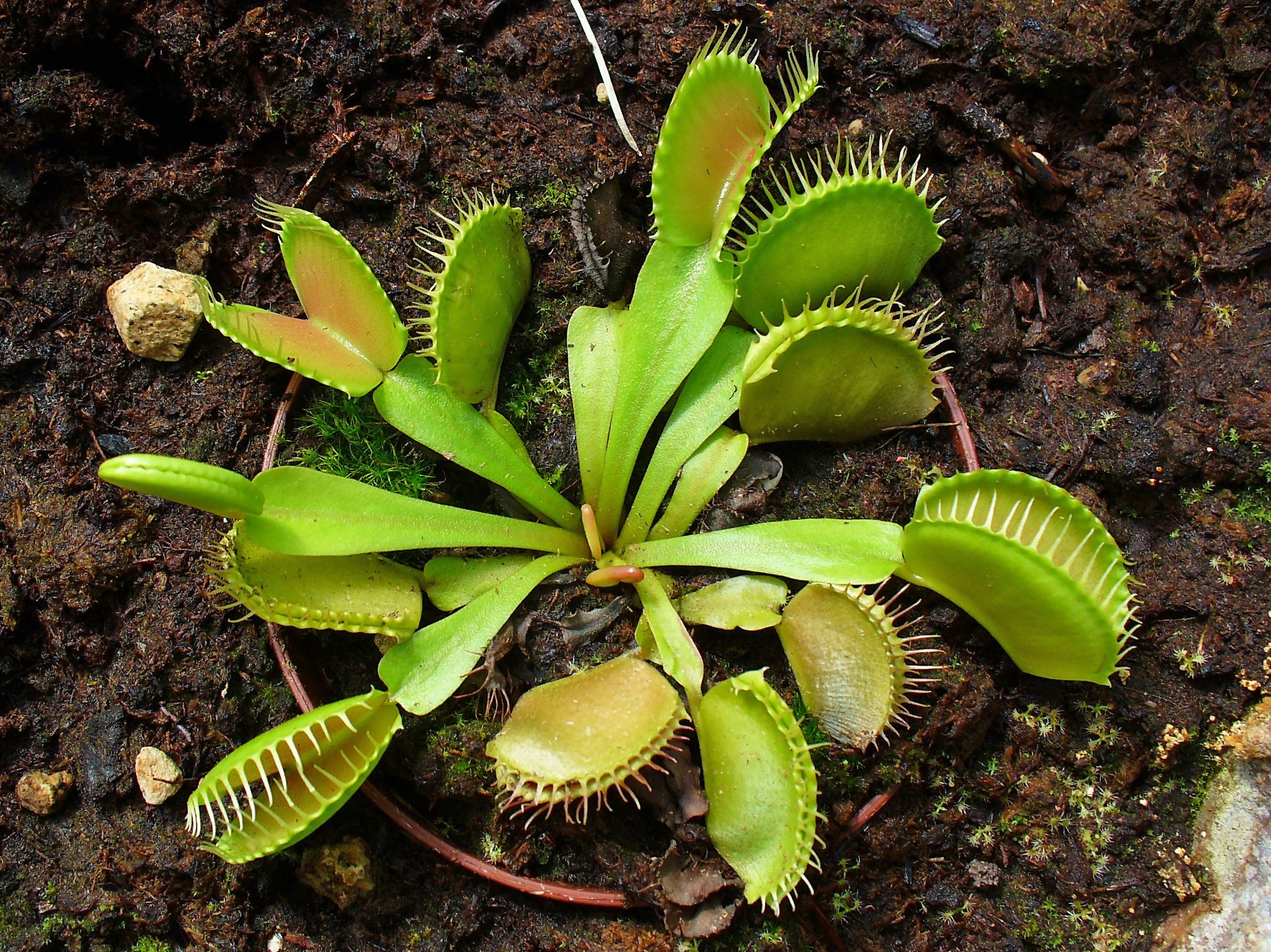 Dionaea muscipula, Droseraceae, Venus Flytrap, leaves; Botanical Garden KIT, Karlsruhe, Germany. The plant is used in homeopathy as remedy: Dionaea muscipula (Dion-m.)